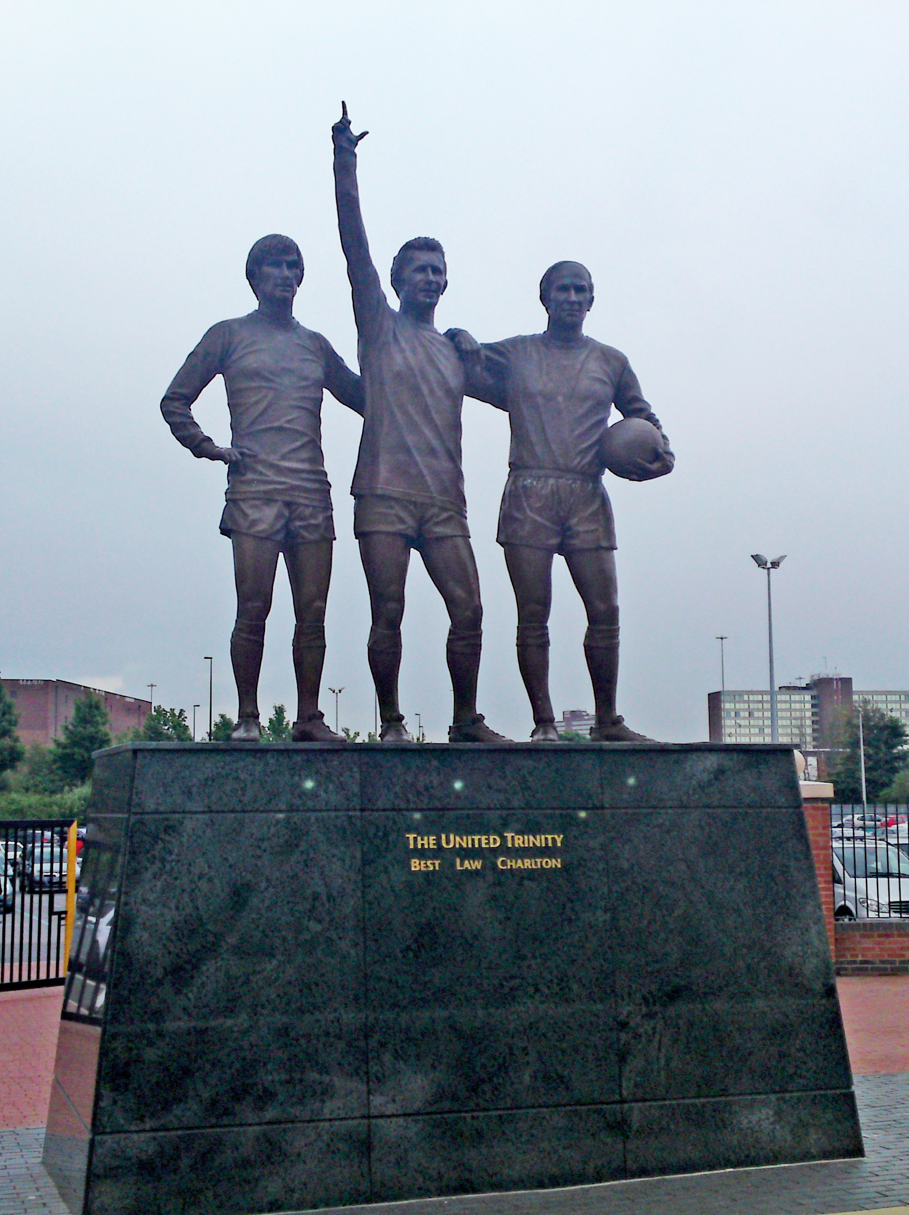 The United Trinity, a bronze statue of George Best, Denis Law and Bobby Charlton (left to right) outside the East Stand at Old Trafford, Manchester.